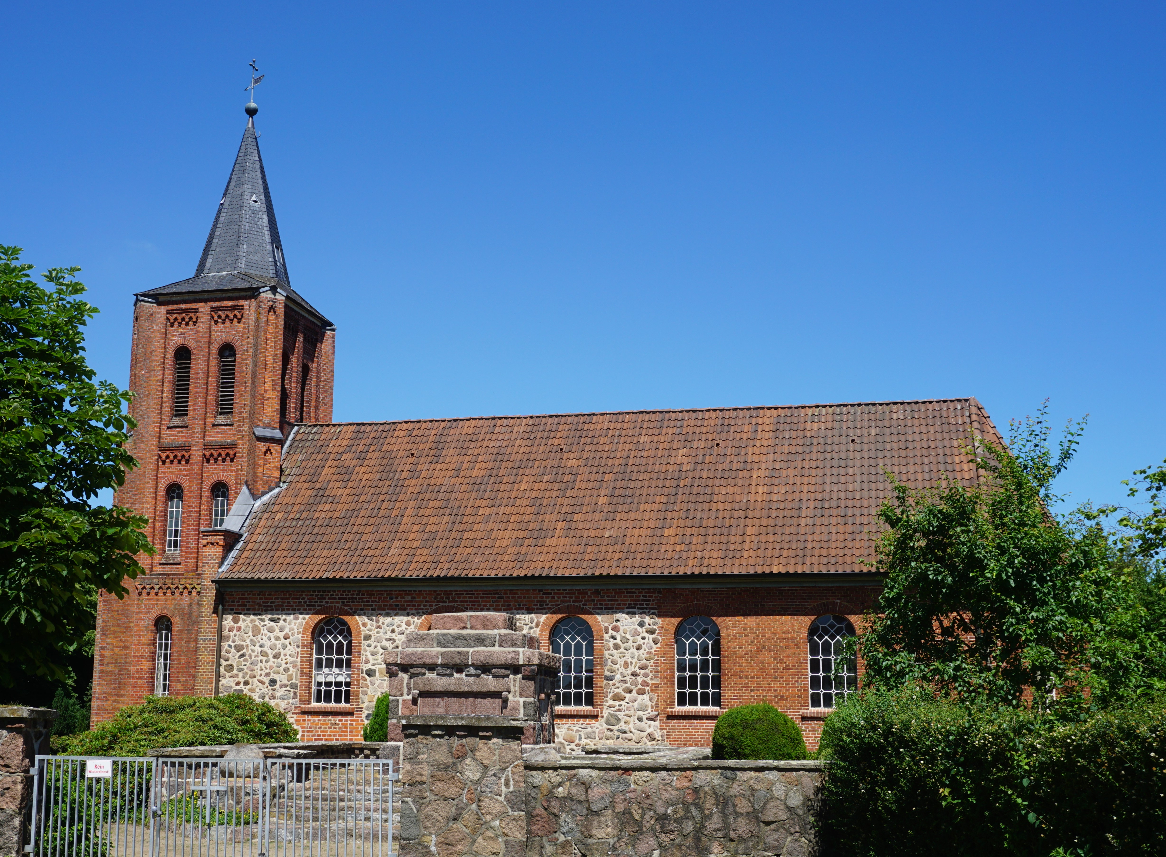 Southern view of the St. Peter's Church in Wendhausen in the municipality of Reinstorf, district of Lüneburg. In the foreground the stony war memorial can be seen.